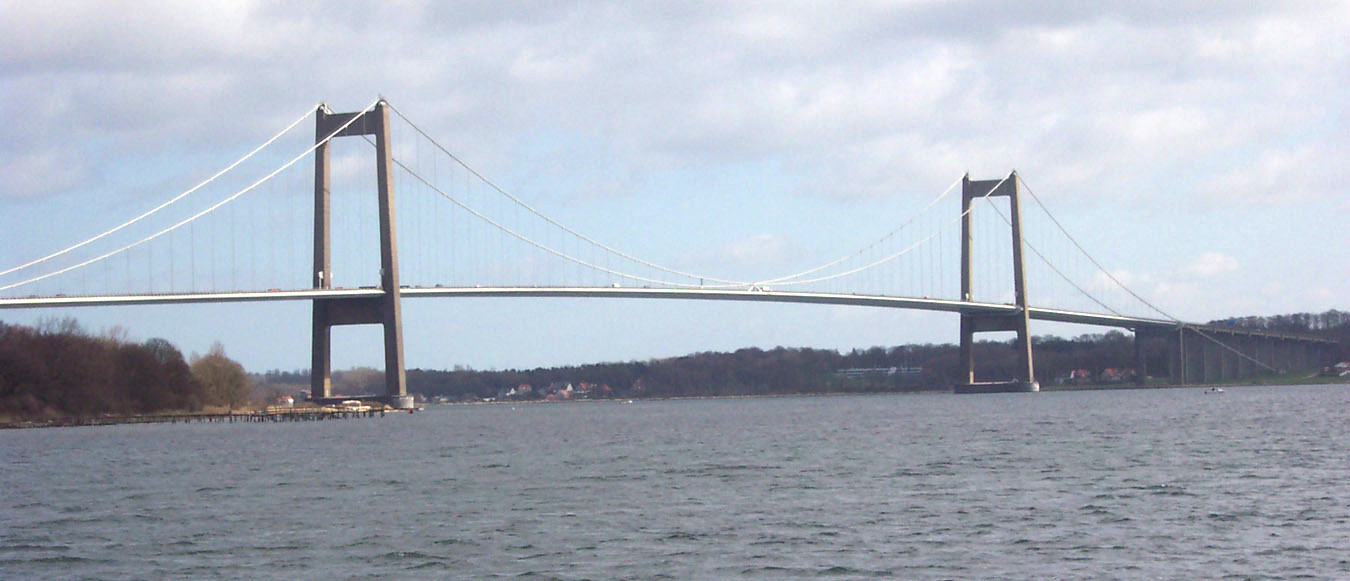 Wide view of the New Little Belt Bridge in Denmark between Jutland mainland and Funen island